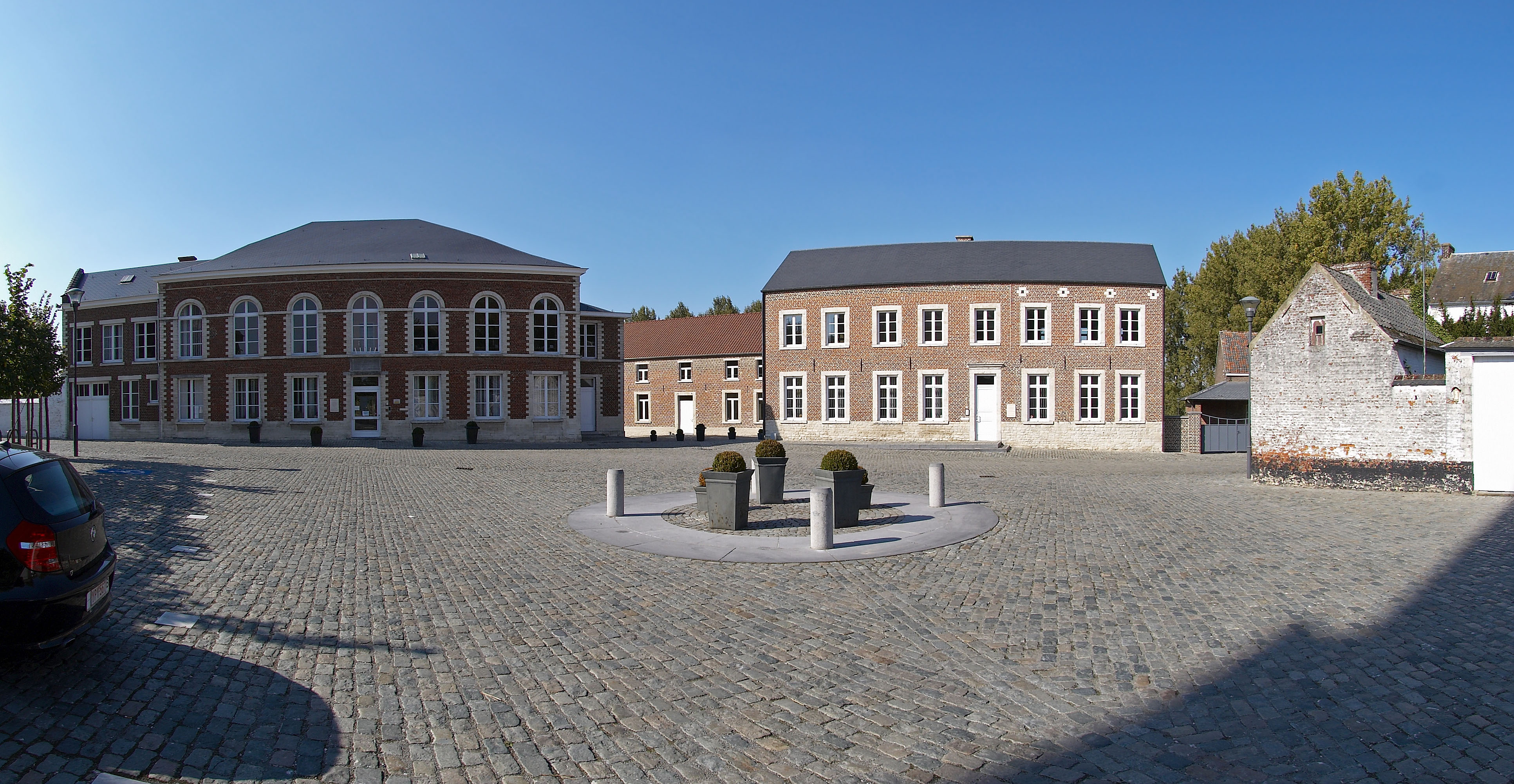 Place Communale with town halls